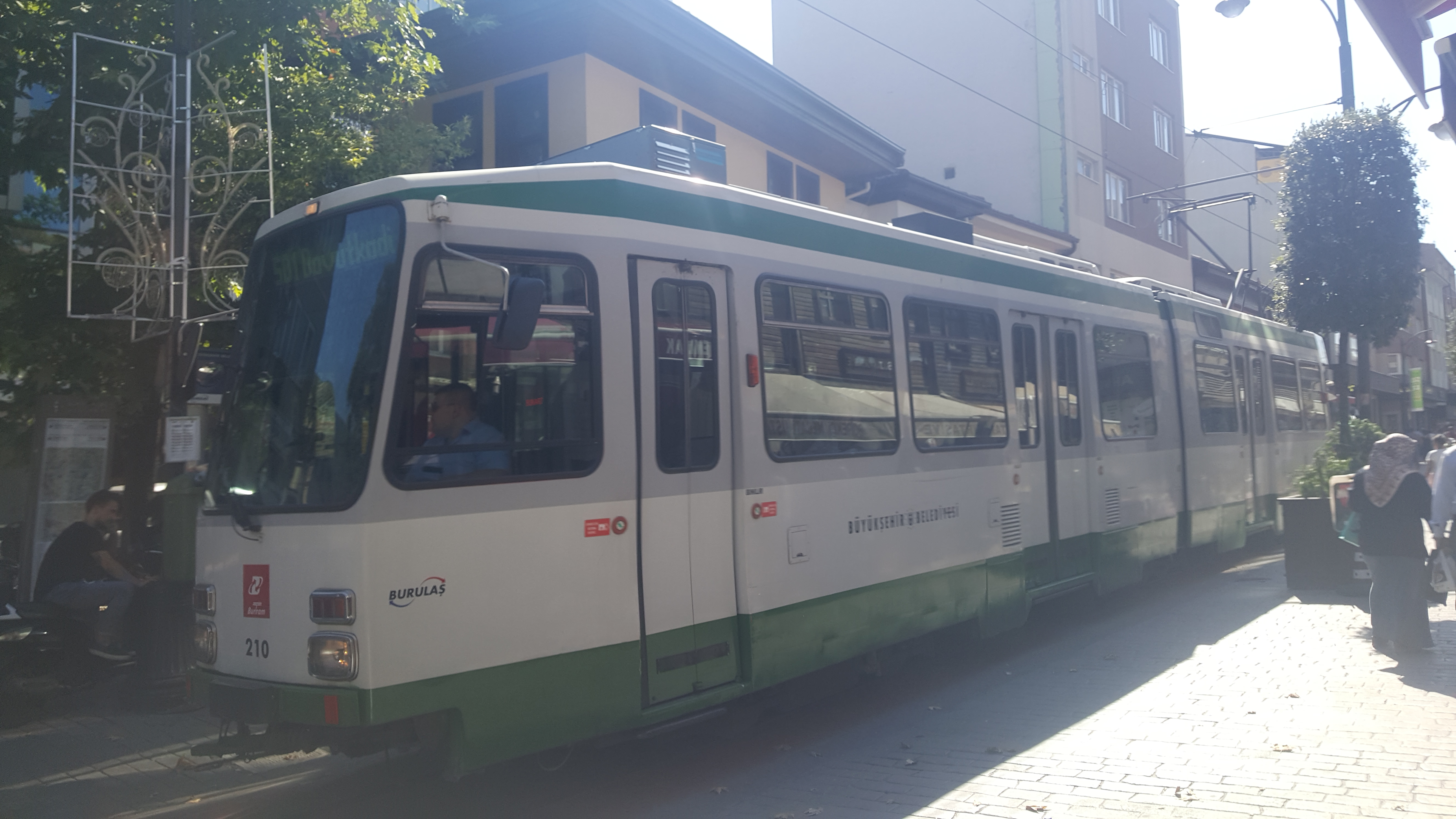 The SilkWorm (İpekböceği), the first domestic tram produced in Turkey, is being operated in Bursa streets since October 12, 2013.